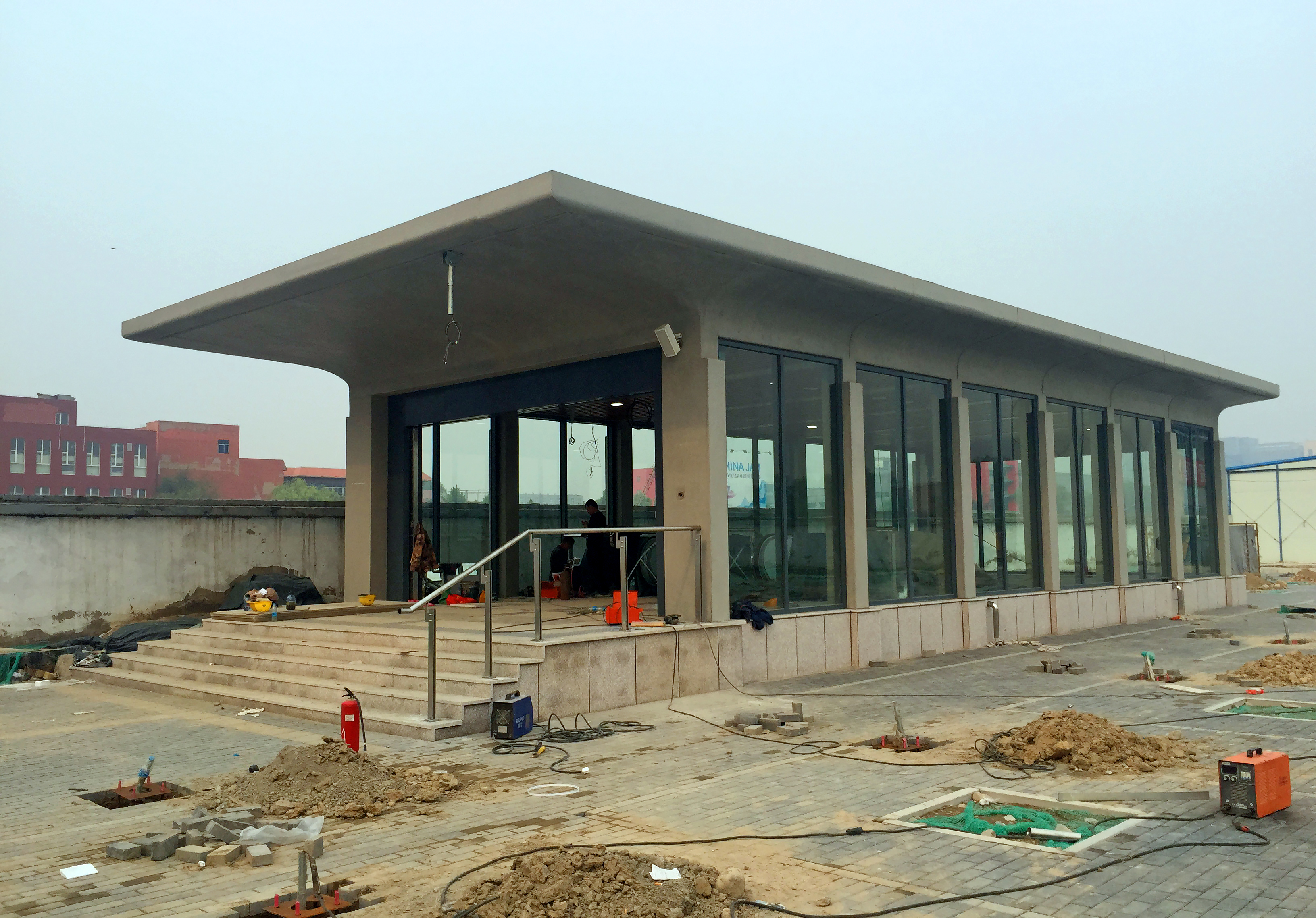 The first to complete? Maybe. This entrance has just been unveiled. Note the VR/AR advertisement on the north.